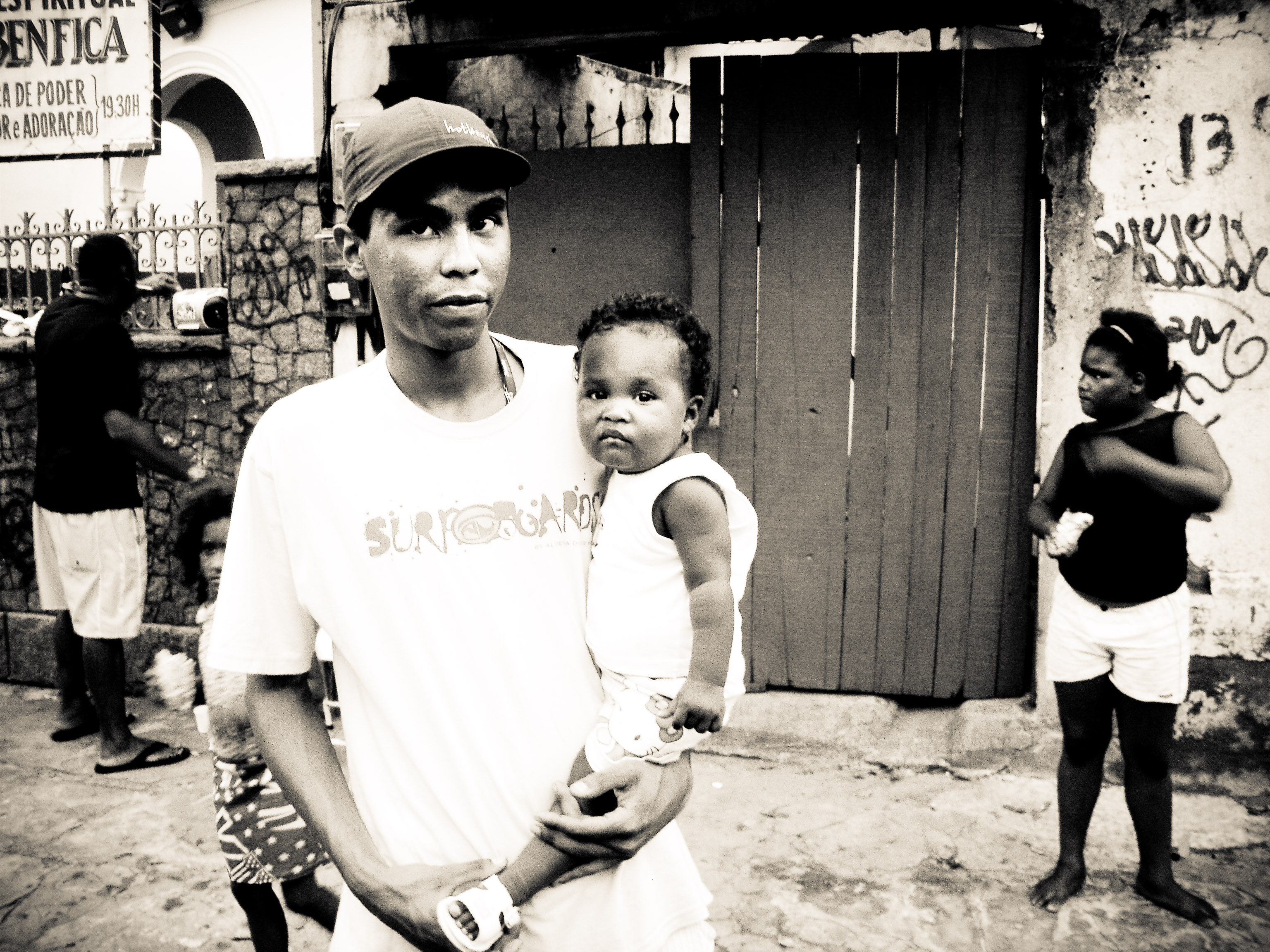 On location in the slums of Rio de Janeiro during the filming of “Samba in your Feet”.